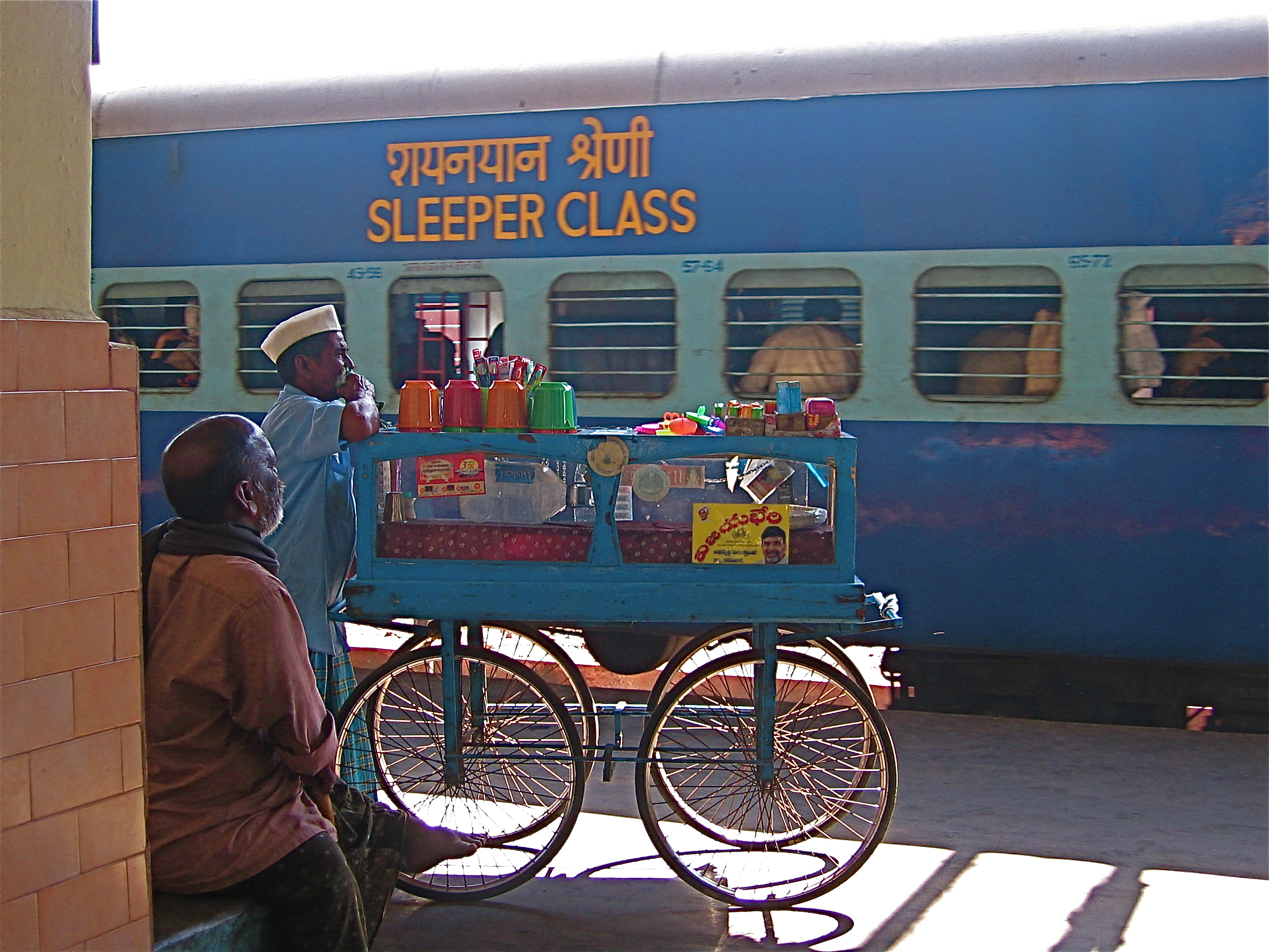 Indian Railway - Sleeper Class.